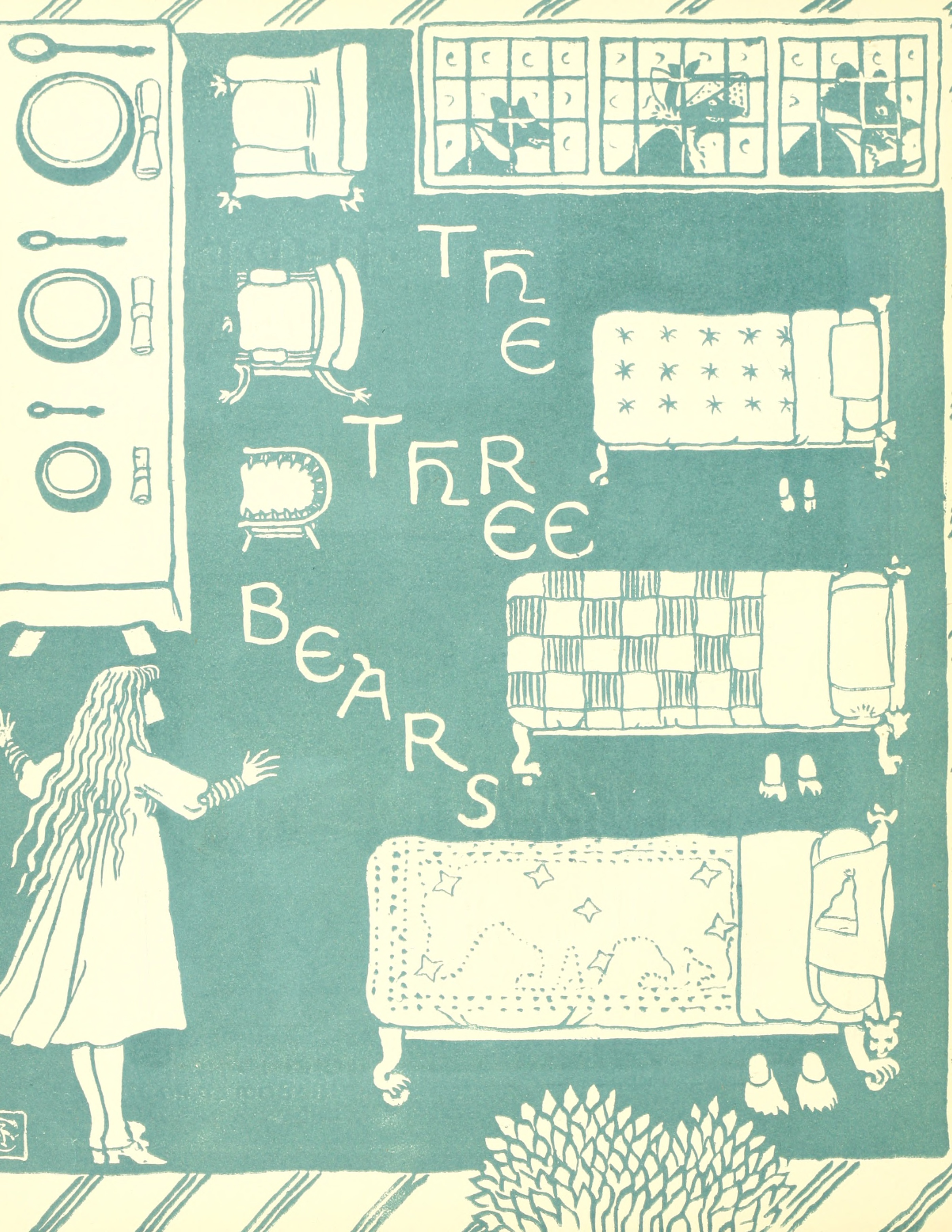 Walter Crane, The Three Bears, 1873.